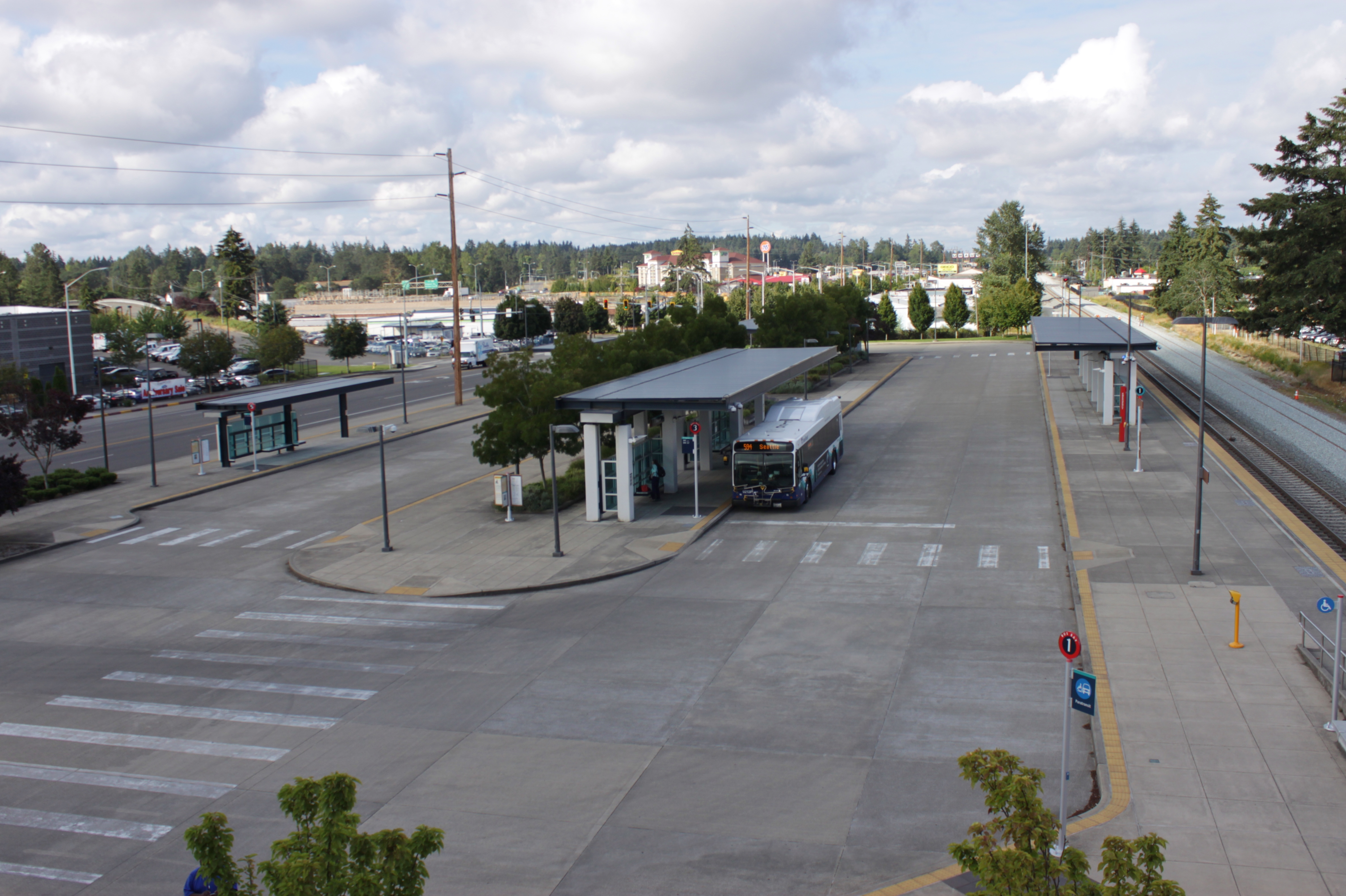 The bus bays at Lakewood station in Lakewood, Washington, US.